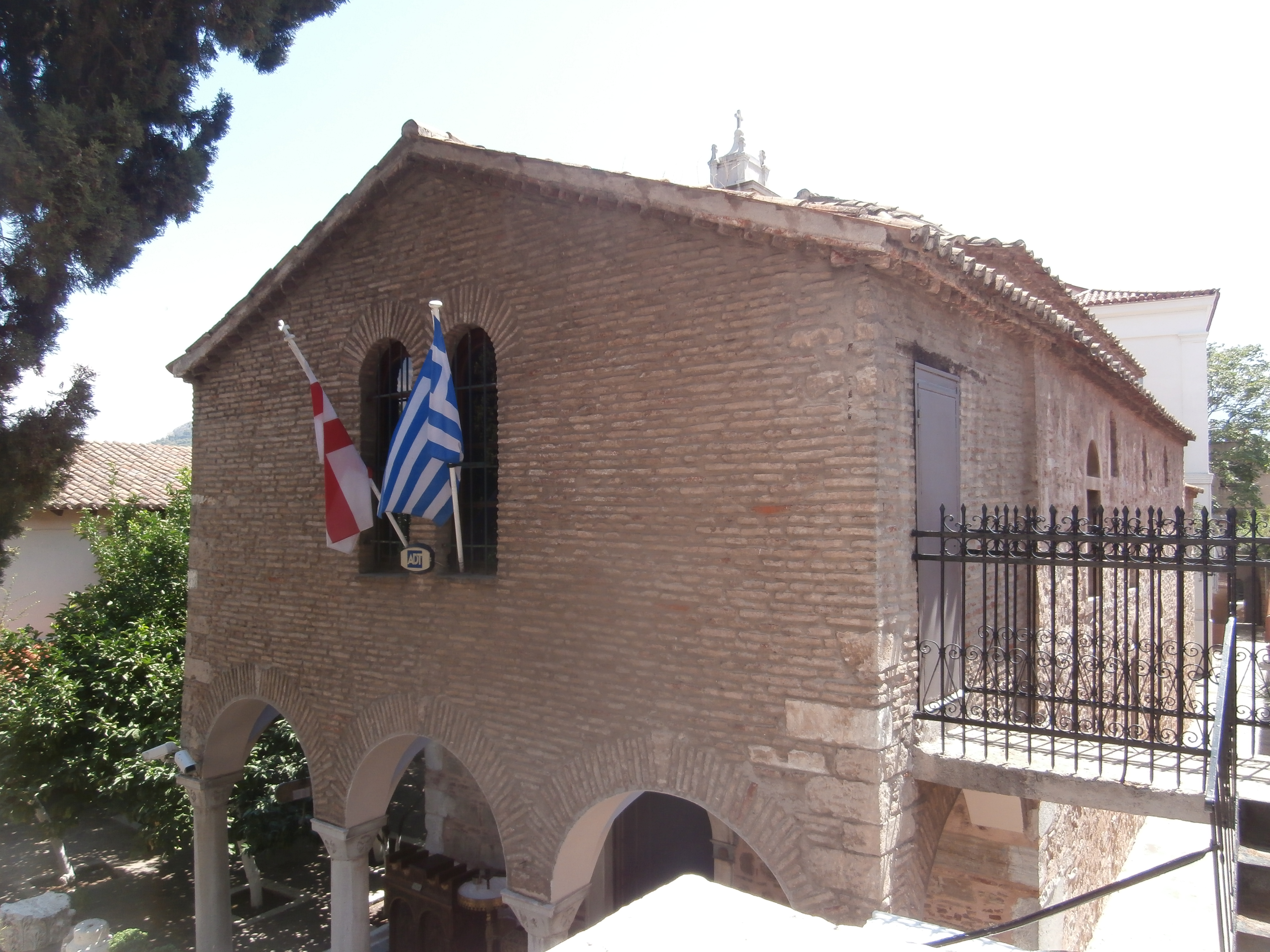 The facade of Agioi Anargyroi in Plaka